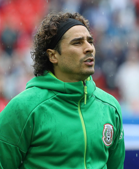 Portugal - Mexico, 2 Jul 2017